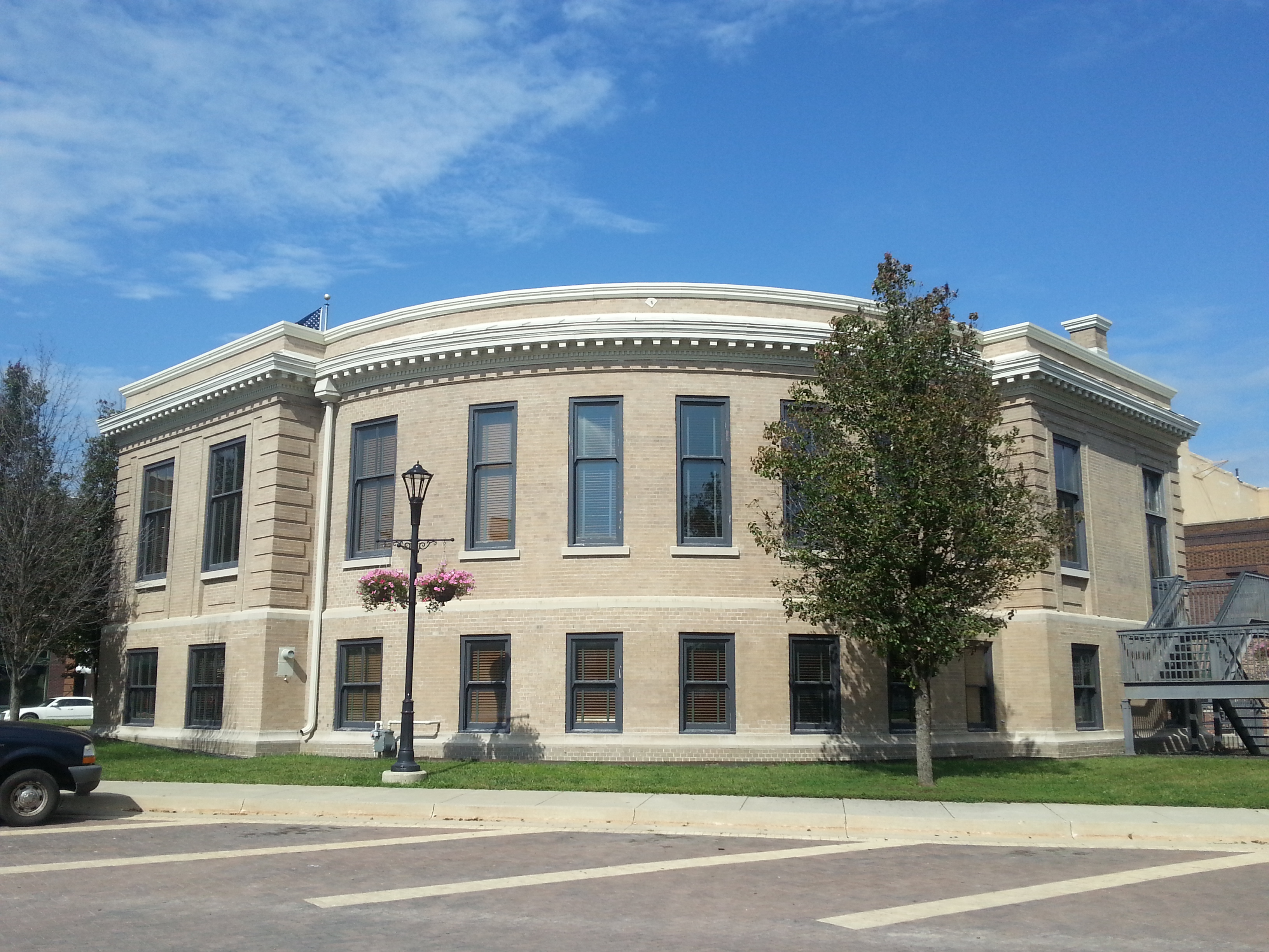 Perry Carnegie Library Building, 1123 Willis Ave. Perry